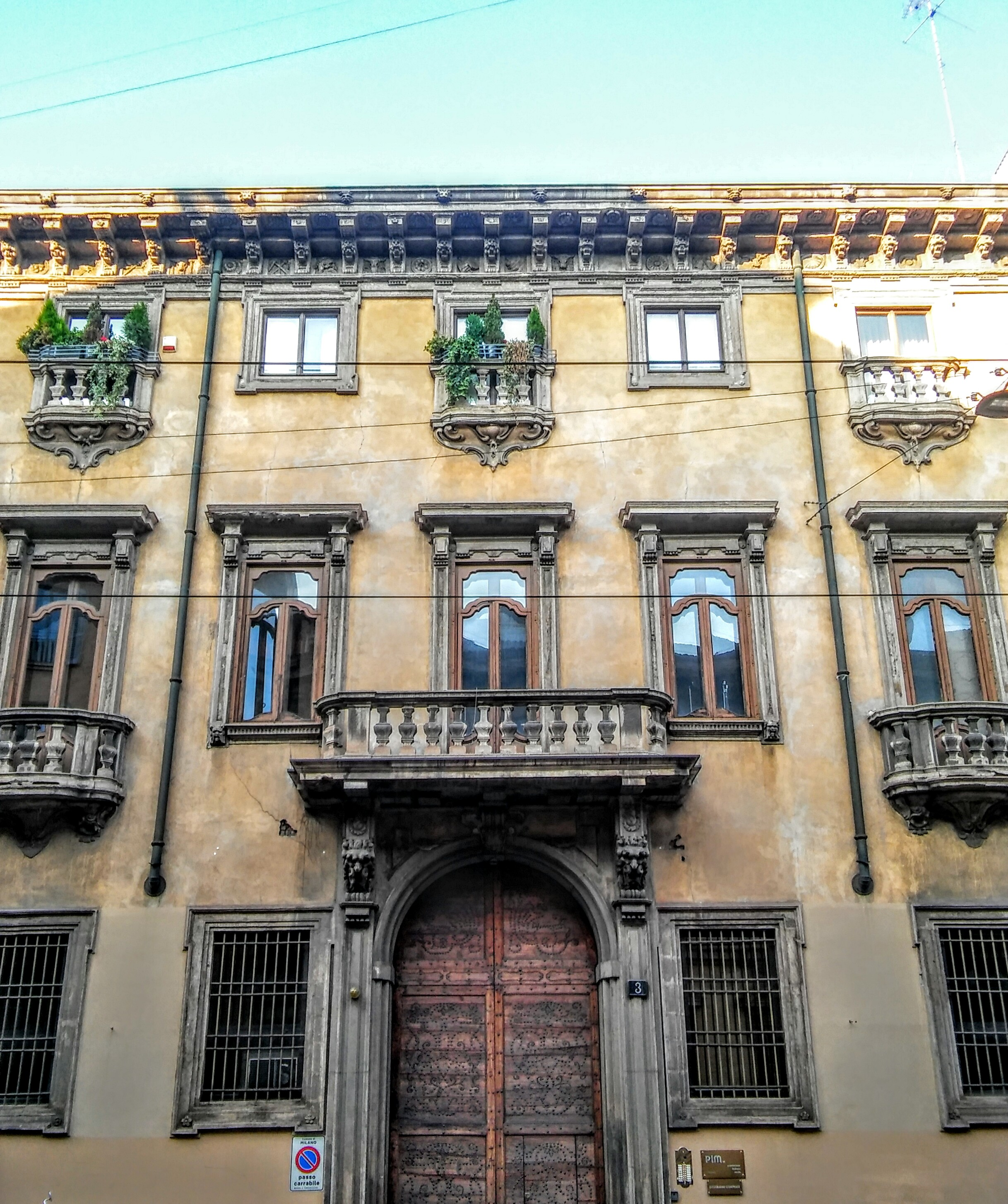 Facade of palazzo Acerbi, Milan